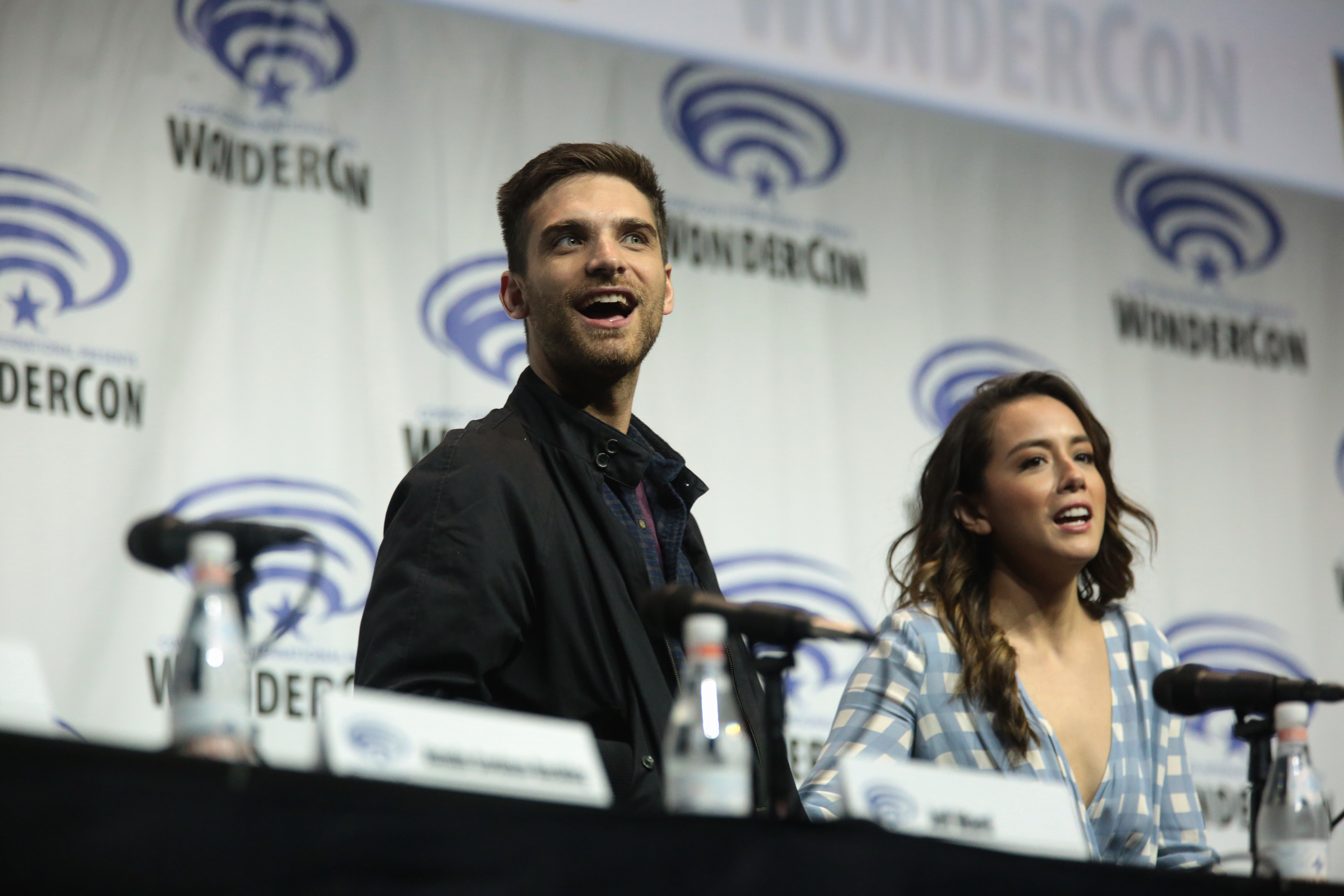 Jeff Ward and Chloe Bennet speaking at the 2018 WonderCon, for "Agents of S.H.I.E.L.D.", at the Anaheim Convention Center in Anaheim, California.